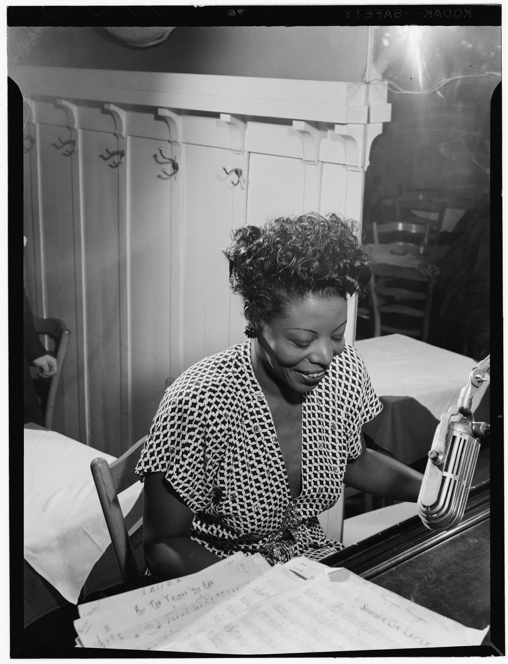 Gottlieb, William P., 1917-, photographer. [Portrait of Mary Lou Williams, New York, N.Y., ca. 1946] 1 negative : b&w ; 3 1/4 x 4 1/4 in. Notes: Gottlieb Collection Assignment No. 335 Purchase William P. Gottlieb Forms part of: William P. Gottlieb Collection (Library of Congress). Subjects: Williams, Mary Lou, 1910- Women jazz musicians--1940-1950. Pianists--1940-1950. Format: Portrait photographs--1940-1950. Film negatives--1940-1950. Rights Info: Mr. Gottlieb has dedicated these works to the public domain, but rights of privacy and publicity may apply. Repository: (negative) Library of Congress, Prints & Photographs Division, Washington D.C. 20540 USA, Part Of: William P. Gottlieb Collection (DLC) 99-401005 General information about the Gottlieb Collection is available at Persistent URL: Call Number: LC-GLB13- 1600 This work is from the William P. Gottlieb collection at the Library of Congress. Rights and restrictions. In accordance with the wishes of William Gottlieb, the photographs in this collection entered into the public domain on February 16, 2010.